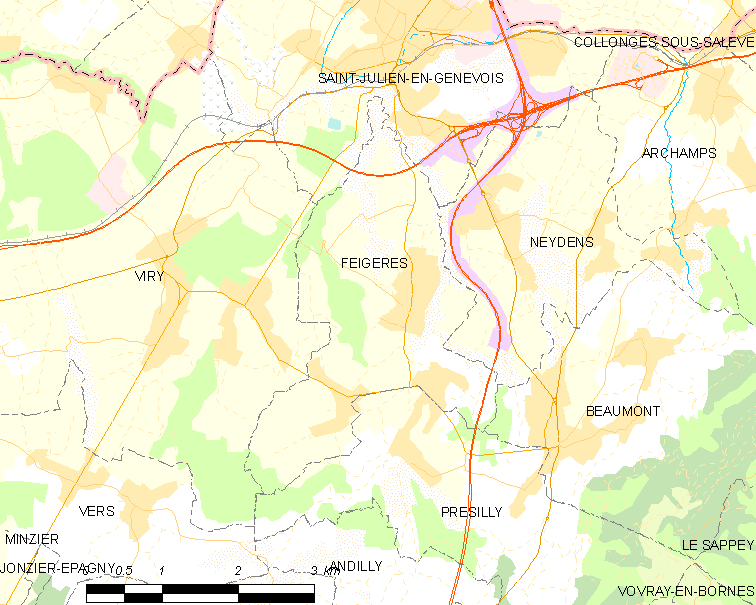 Map of French municipality Feigères